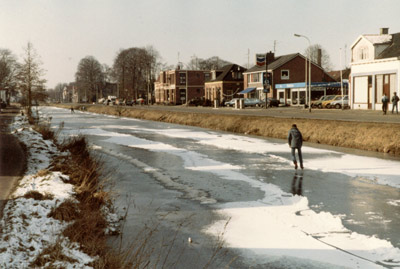 The Winschoterdiep in Sappemeer-East before it was filled in.